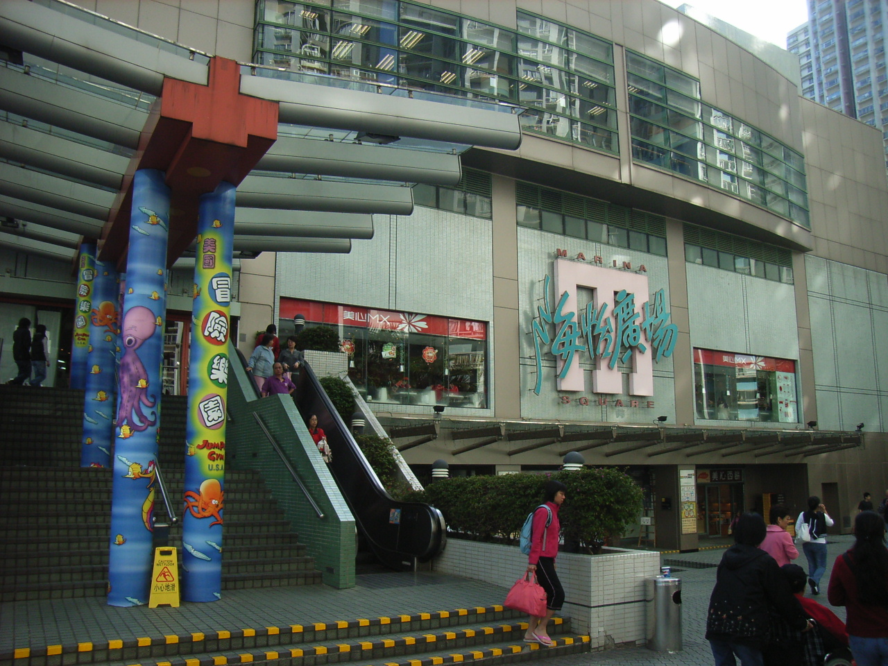 海怡半島商場西翼北面入口 (South Horizons)，Hong Kong Photographer:User:Apade1872